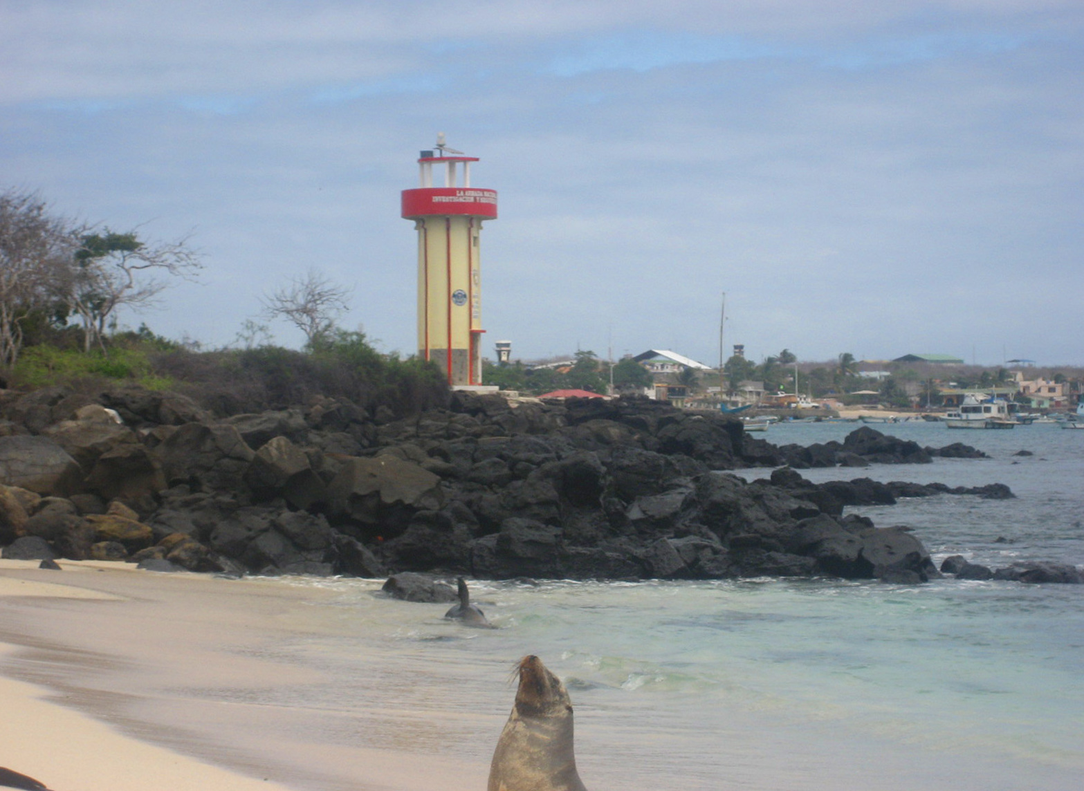 VIew of San Cristobal.